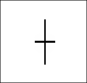 תבנית נר דוגי